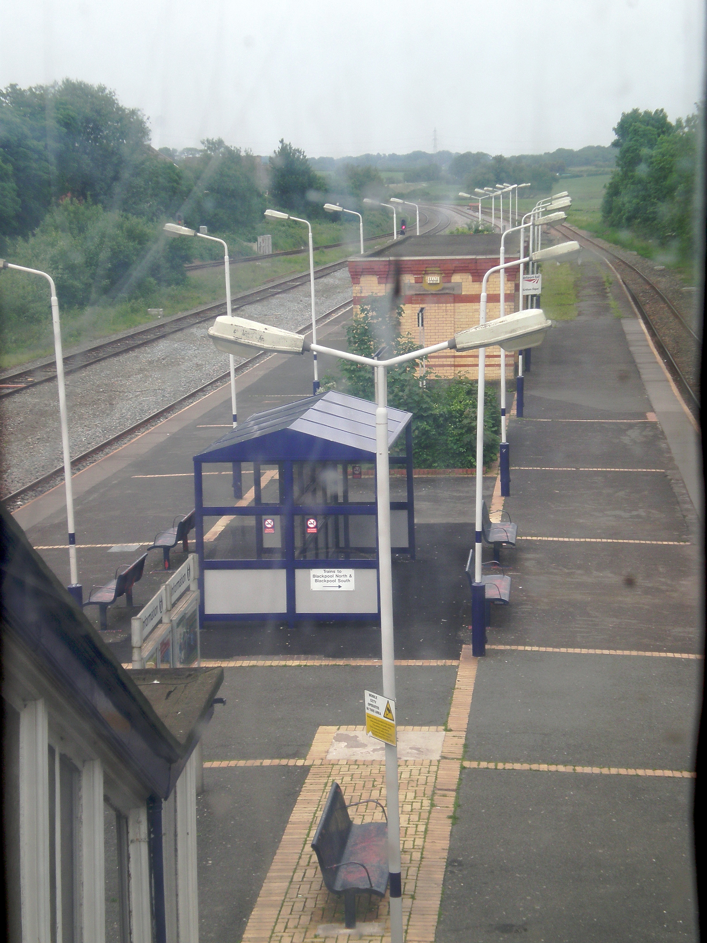 Kirkham and Wesham railway station